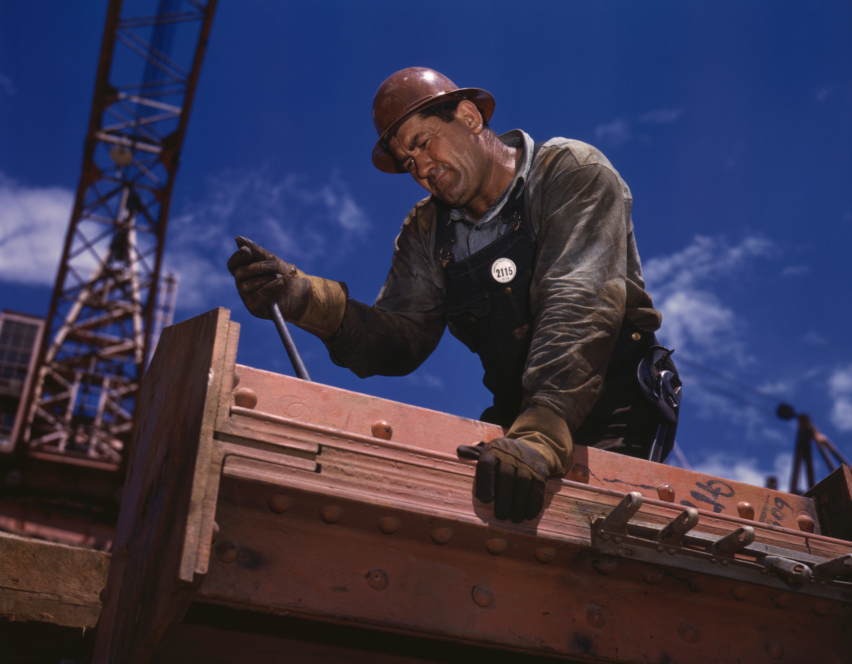 "Big Pete" Ramagos, rigger at work on dam (TVA) Douglas Dam, Tenn.